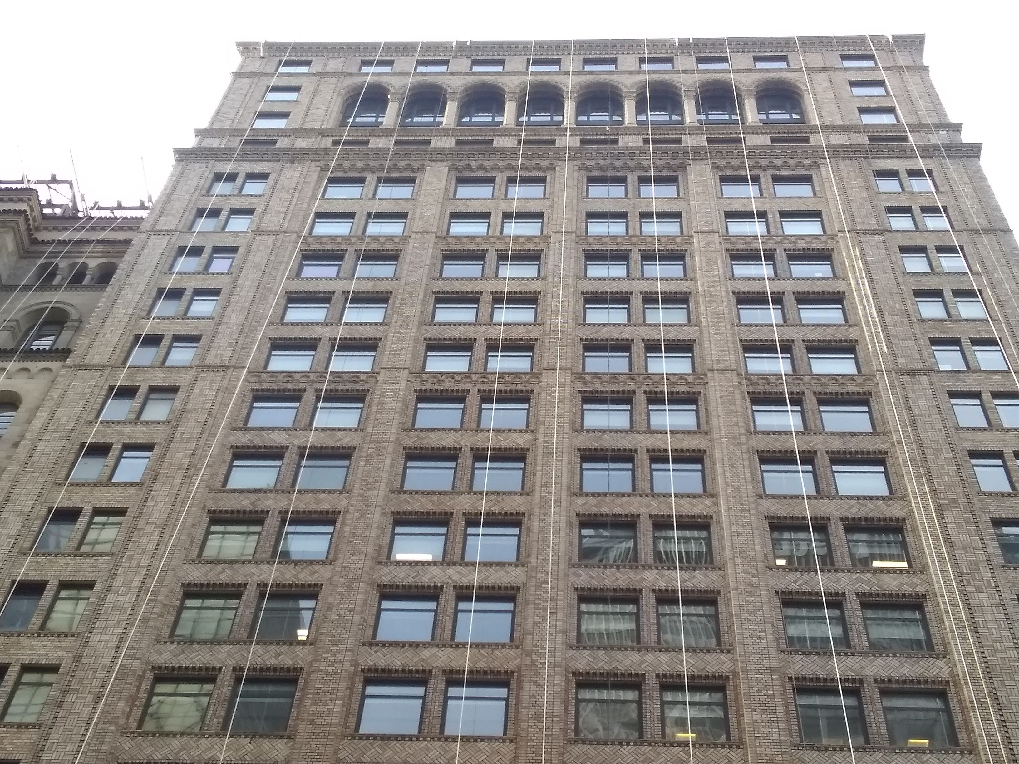 Exterior of the Pershing Square Building in Manhattan, New York